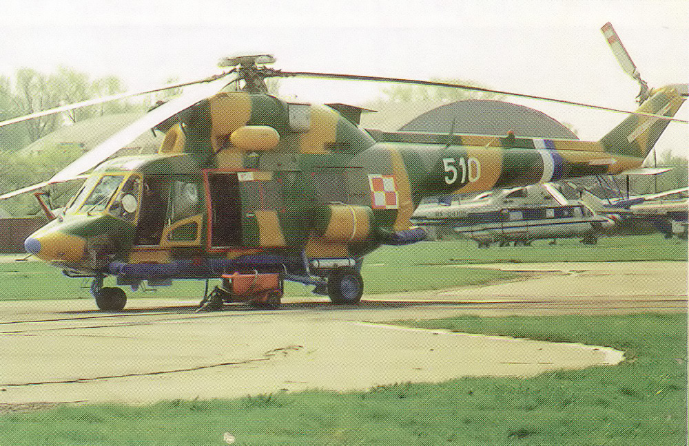 PZL W-3RM Anakonda of Polish Navy